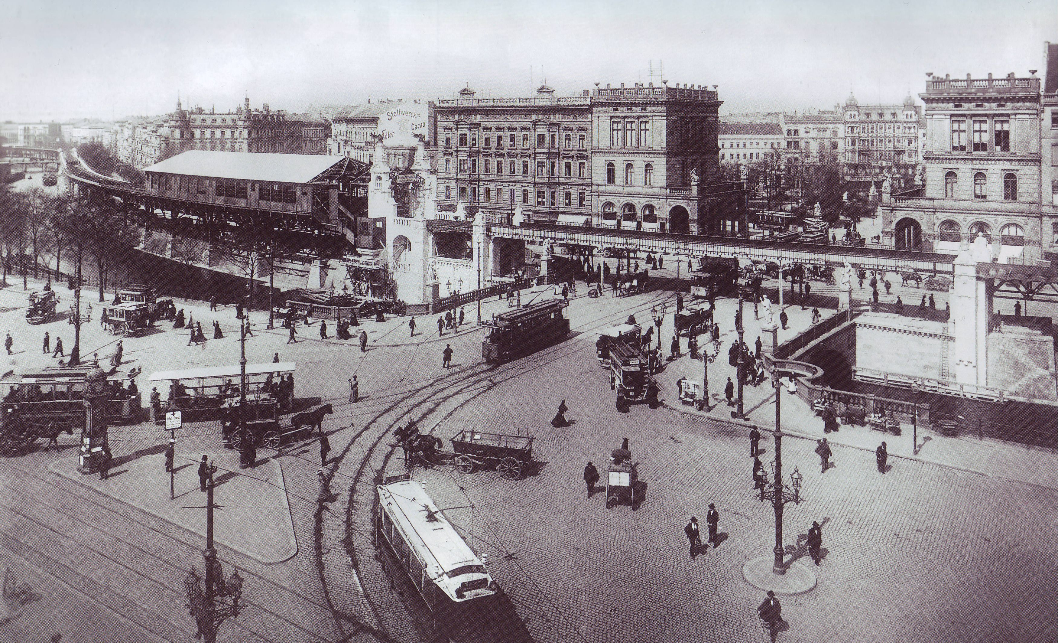 Berlin. Hallesches Tor railway station under construction.